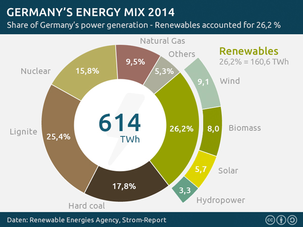 Energy mix 2014: market share of Germany's power generation